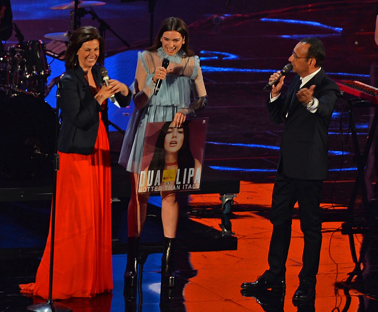 Vanessa Incontrada, Dua Lipa and Carlo Conti during the Wind Music Awards 2016 ceremony at Verona Arena